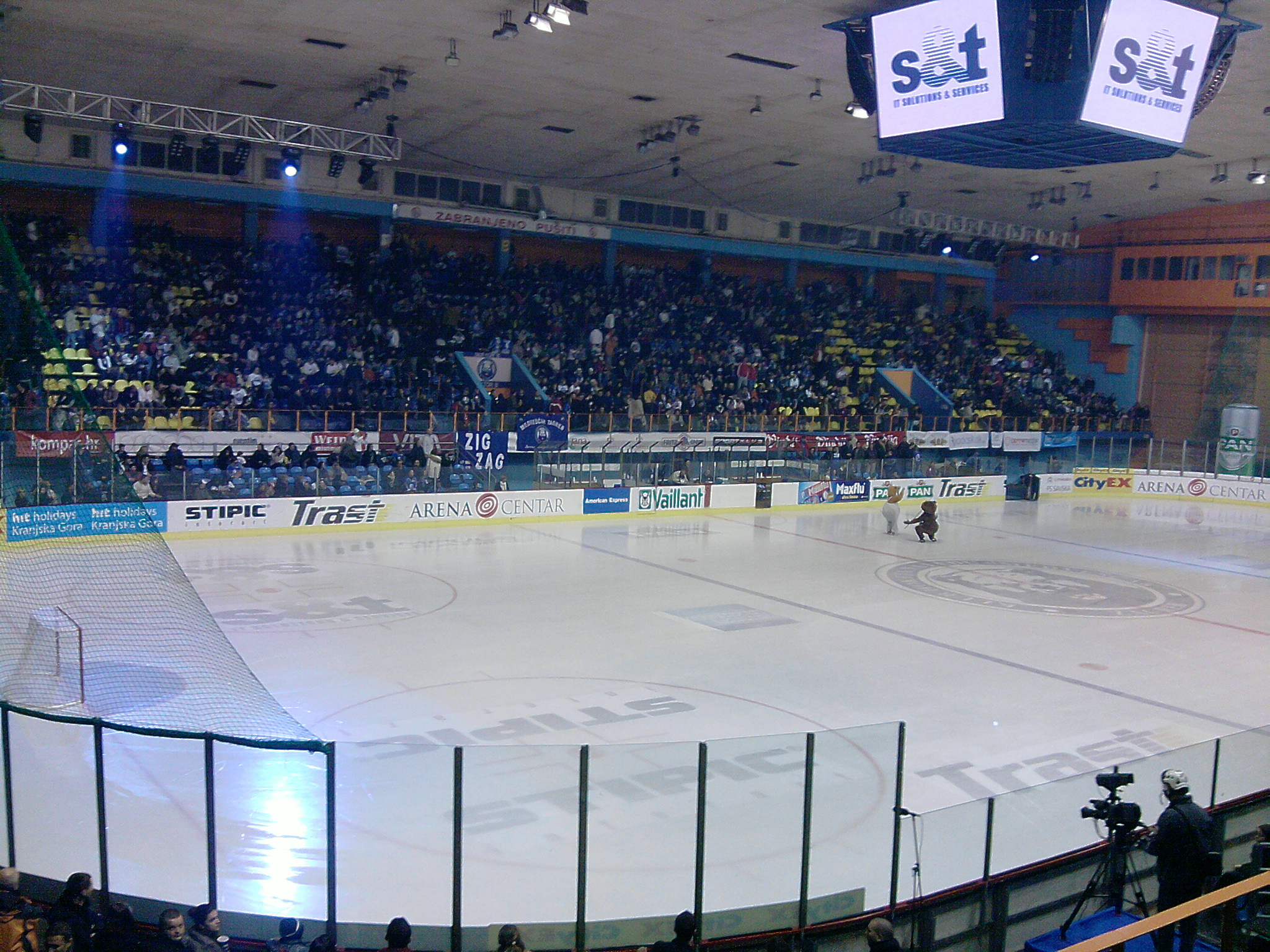 KHL Medveščak Zagreb - Graz 99ers 2010-01-03